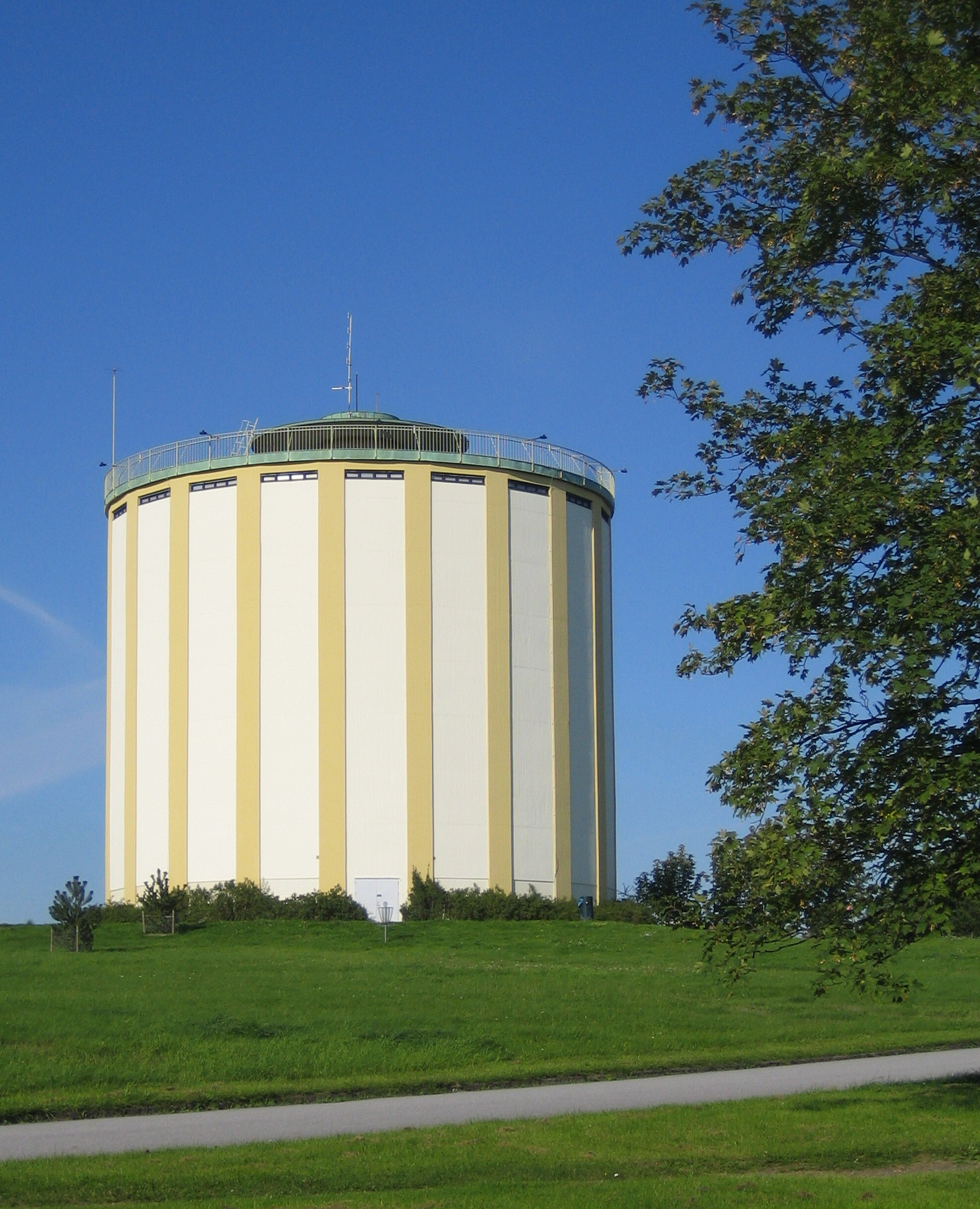 Botildenborg's Water Tower in Malmo.